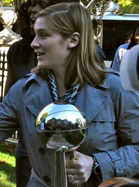 Lindsay Whalen, point guard for the Minnesota Lynx